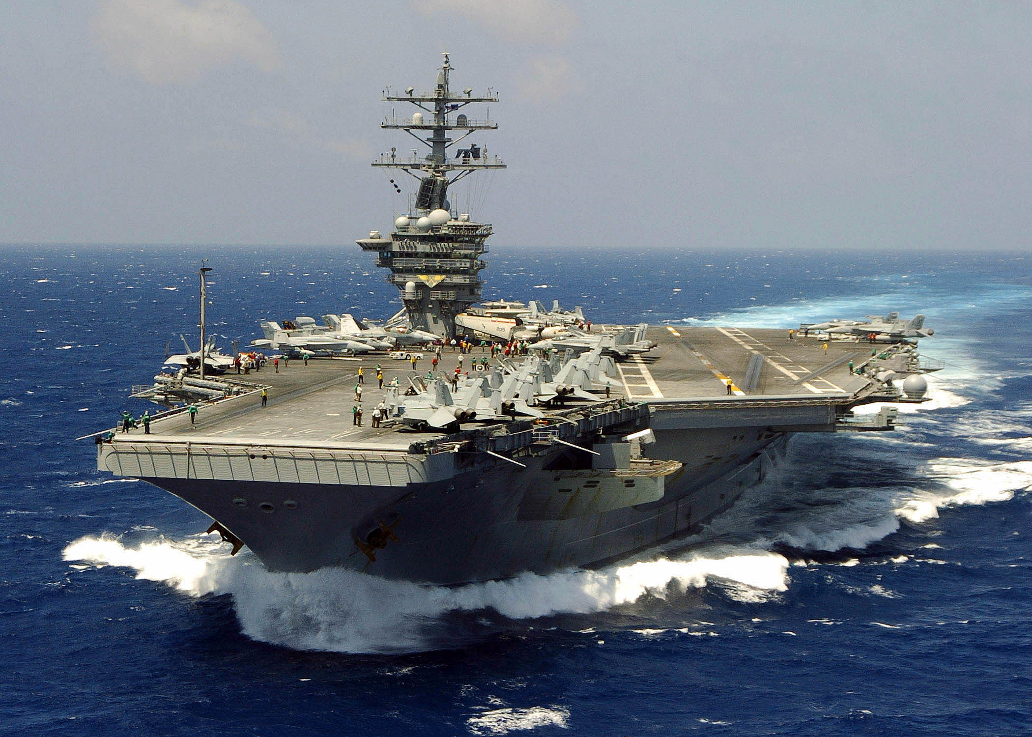 060417-N-0490C-005 The Nimitz-class aircraft carrier USS Dwight D. Eisenhower (CVN-69) transits the Atlantic Ocean. Eisenhower and embarked Carrier Air Wing Seven (CVW-7) are participating in Composite Training Unit Exercise (COMPTUEX).